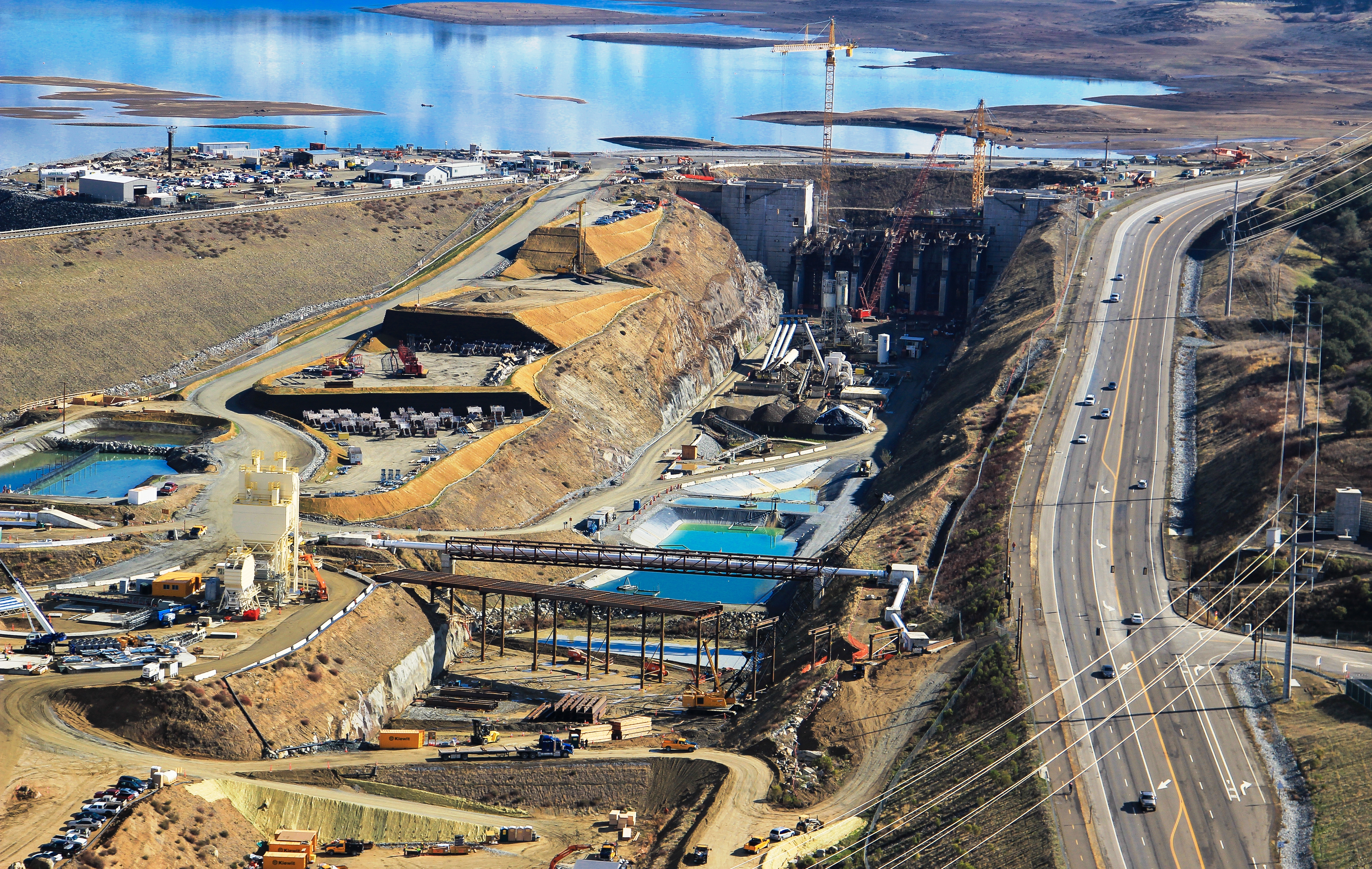 Concrete placement on the control structure of the Folsom Dam auxiliary spillway is 80% complete. Later this year, construction teams will begin installing the massive gates of the control structure. The six submerged radial arm Tainter gates will control the flow of water in the spillway and the six bulkhead gates will be used to perform maintenance on the Tainter gates. (Photo from Kiewit Infrastructure West Co./Released)